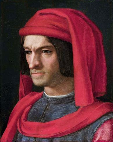 Medici Family: Lorenzo the Magnificent, retouched (removed text, white balance)